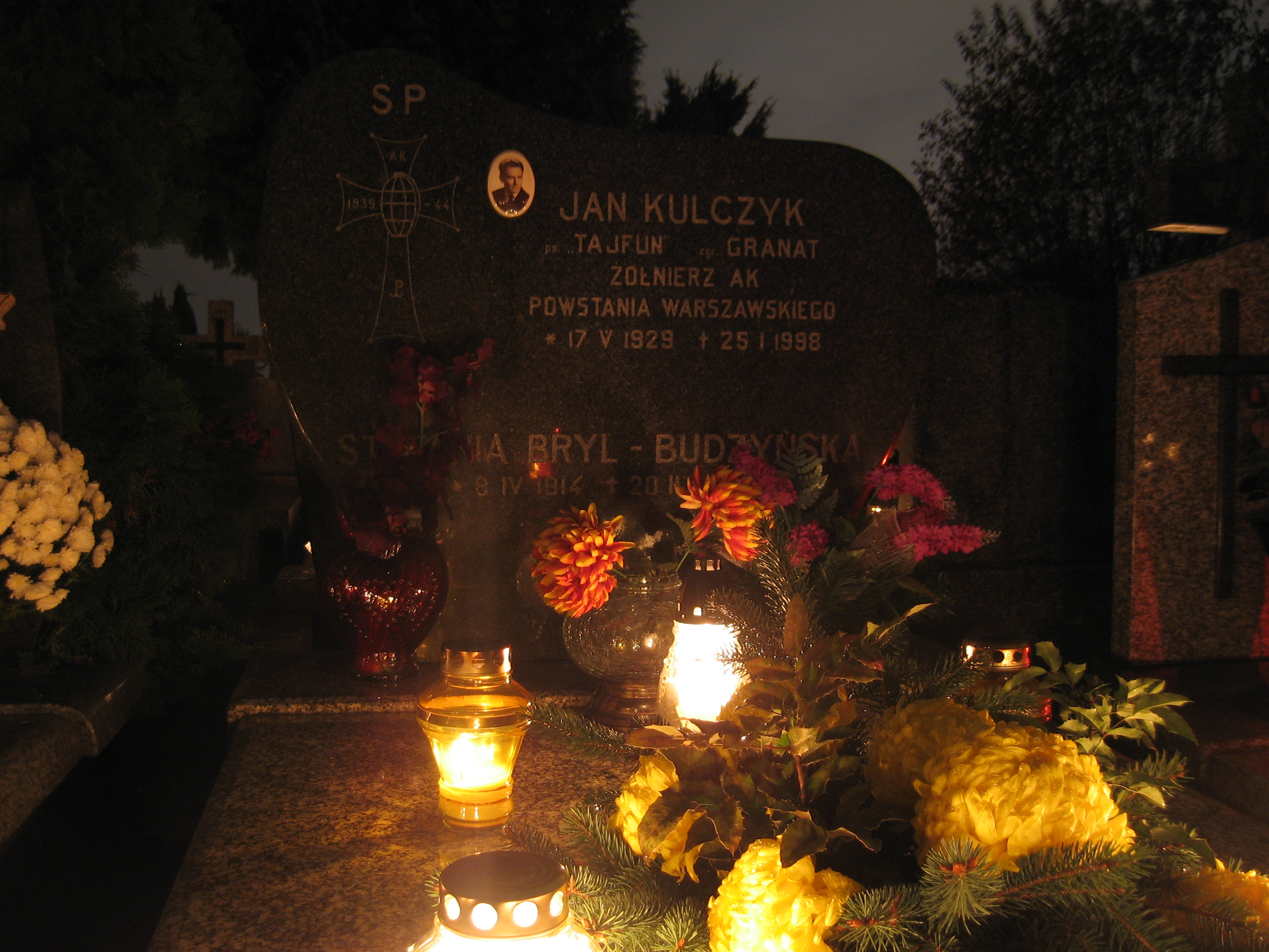 Jan Piotr Kulczyk Tombstone